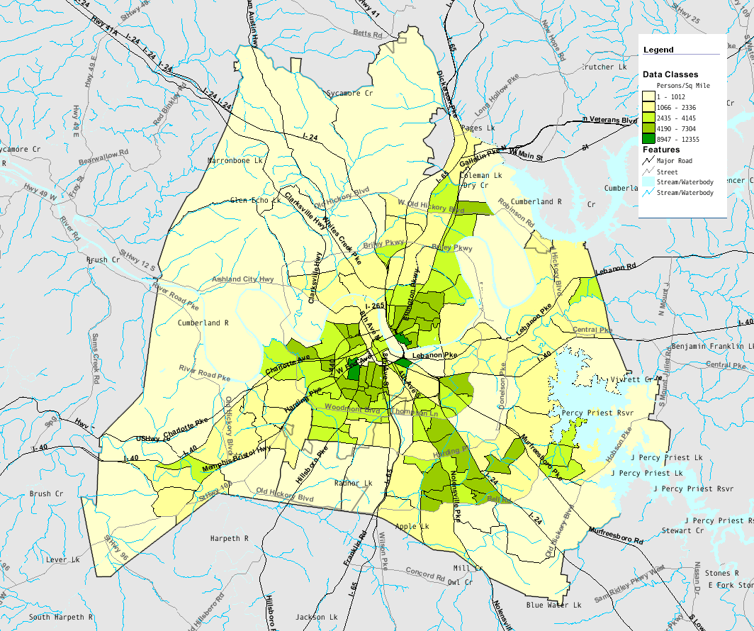 From the United States Census Bureau's Fact Finder website: event=&geo id=16000US4752006& geoContext=01000US%7C04000US47%7C16000US4752006& street=& county=Nashville& cityTown=Nashville& state=04000US47& zip=& lang=en& sse=on&ActiveGeoDiv=geoSelect& useEV=&pctxt=fph&pgsl=160& submenuId=factsheet 1&ds name=DEC 2000 SAFF& ci nbr=null&qr name=null®=null%3Anull& keyword=& industry= Source. This map shows the city of Nashville, Tennessee, USA by average number of inhabitants per square mile of land in 2000. Montage of 9 images by Drumguy8800.